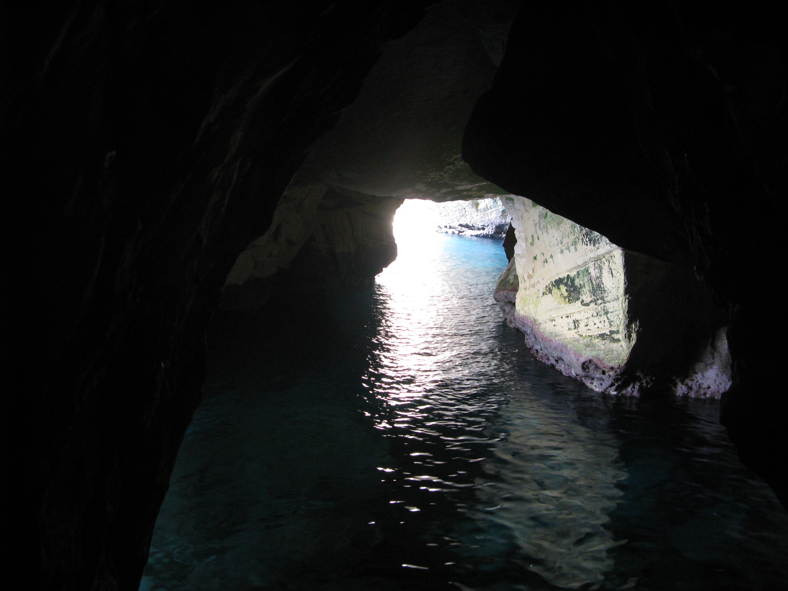 Inside the Rosh Hanikra cave